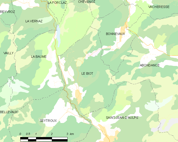 Map of French municipality Le Biot